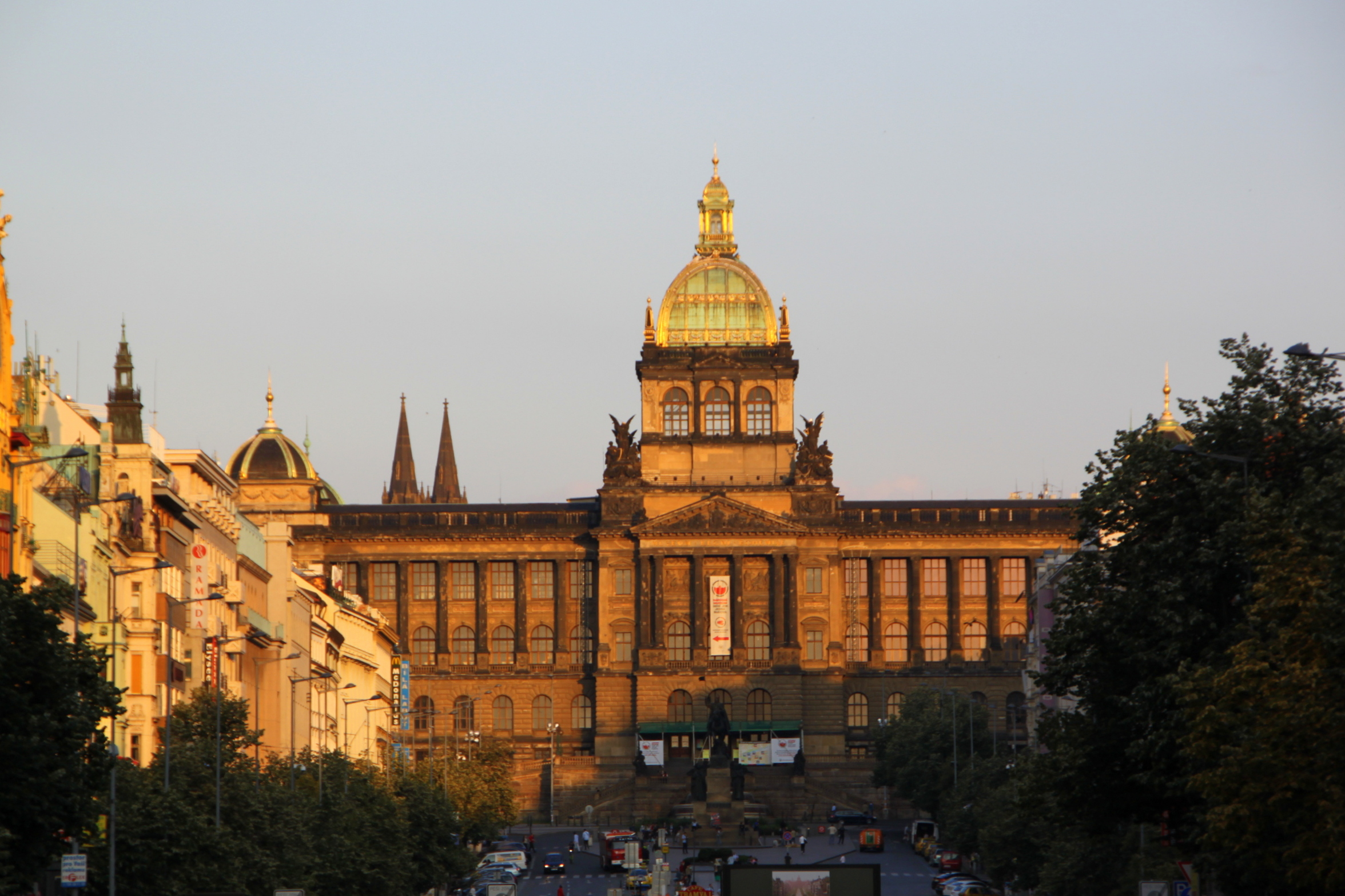 Prague 1, Czech Republic